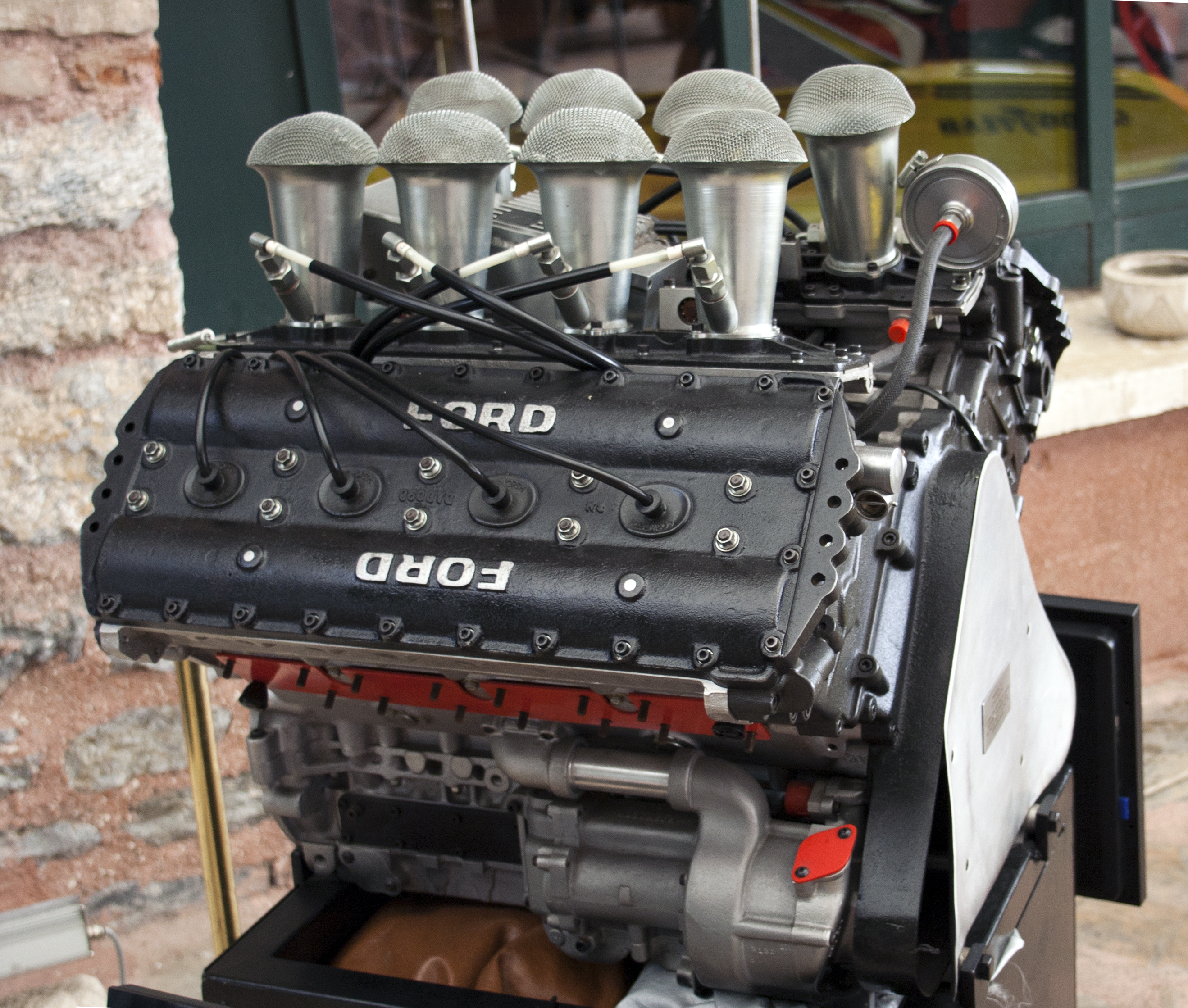 A Ford Cosworth DFV F1 engine on display at the Rahmi M. Koç Museum of Transportation.